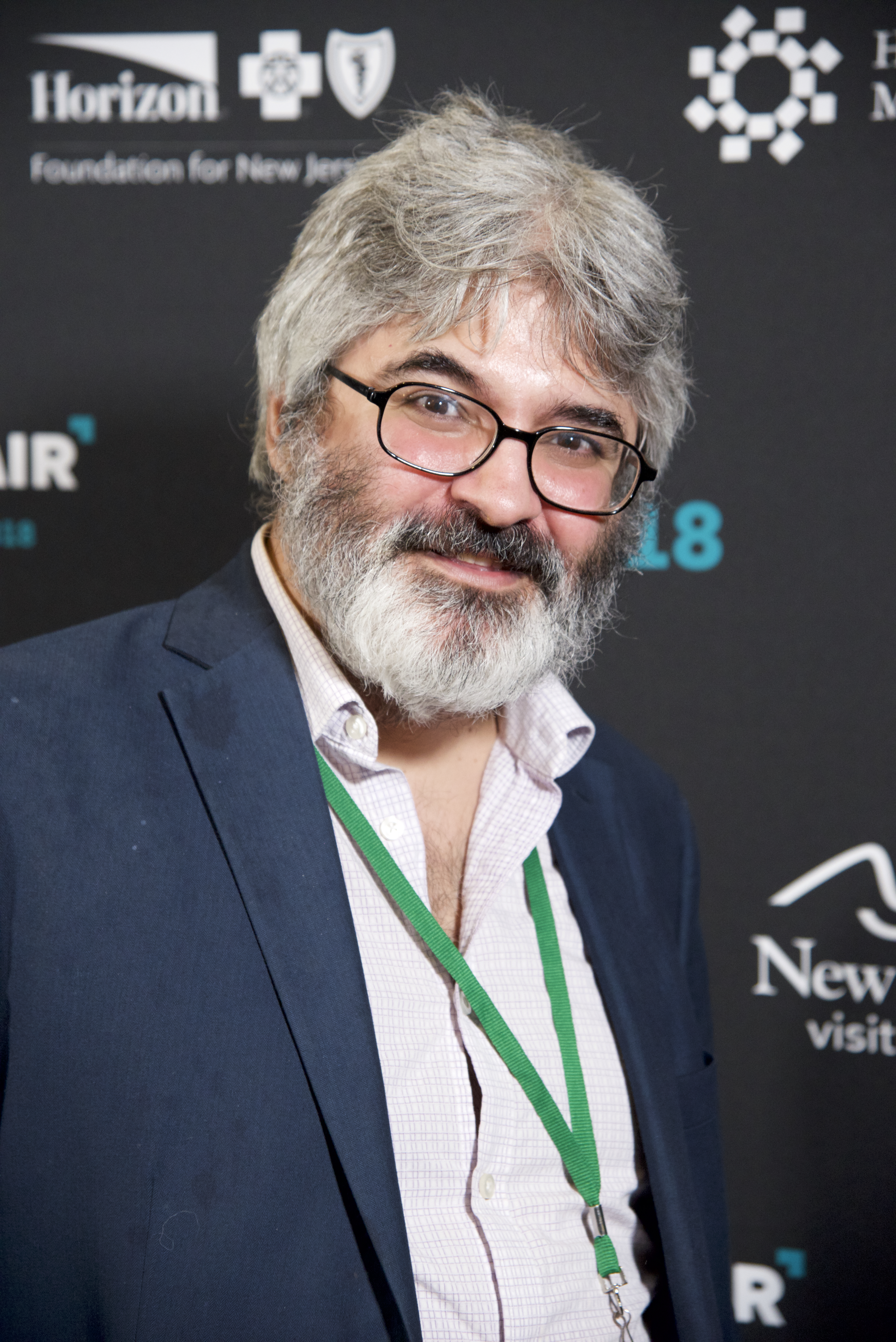 photo by "Dan D'Errico / Montclair Film"